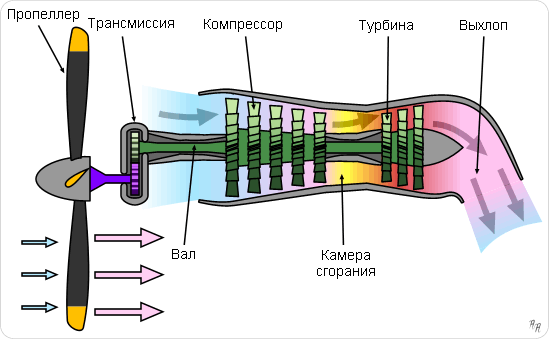 Schematic diagram of the operation of a turboprop engine.